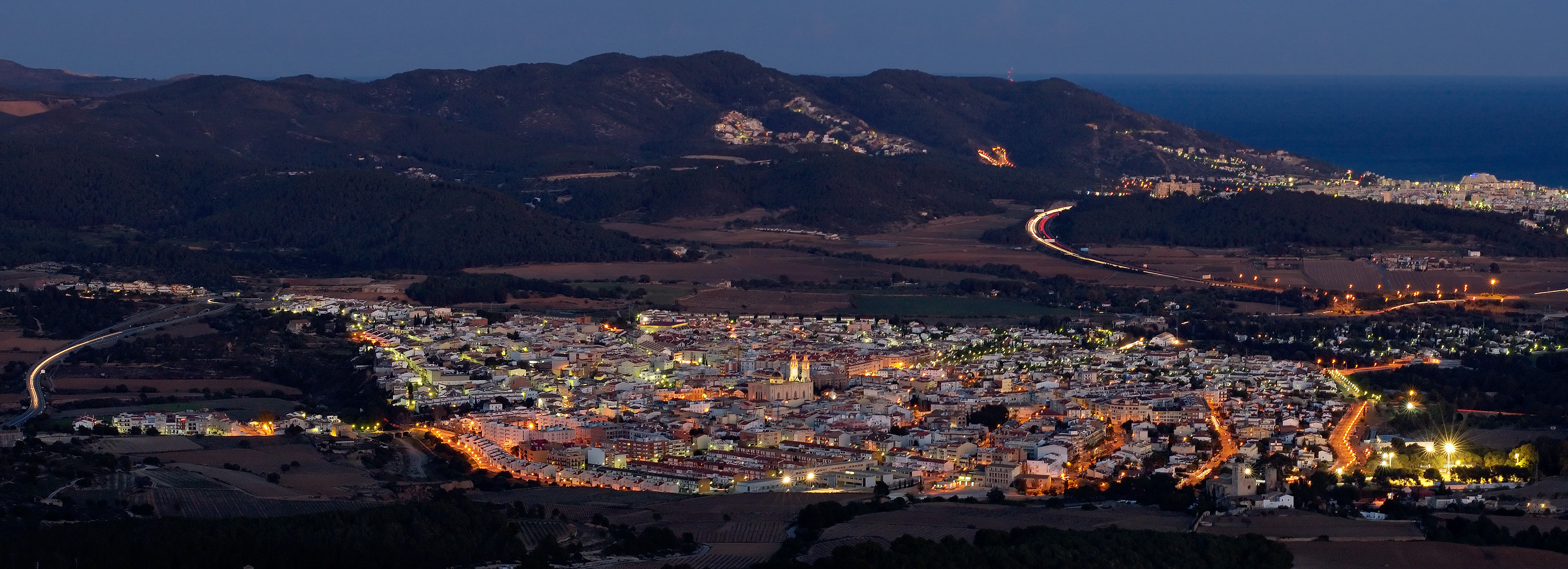 View towards the Garraf National Park from Mont Gros, overlooking the town of Sant Pere de Ribes, near Sitges in Catalonia. The north end of Sitges can be seen towards the coast.